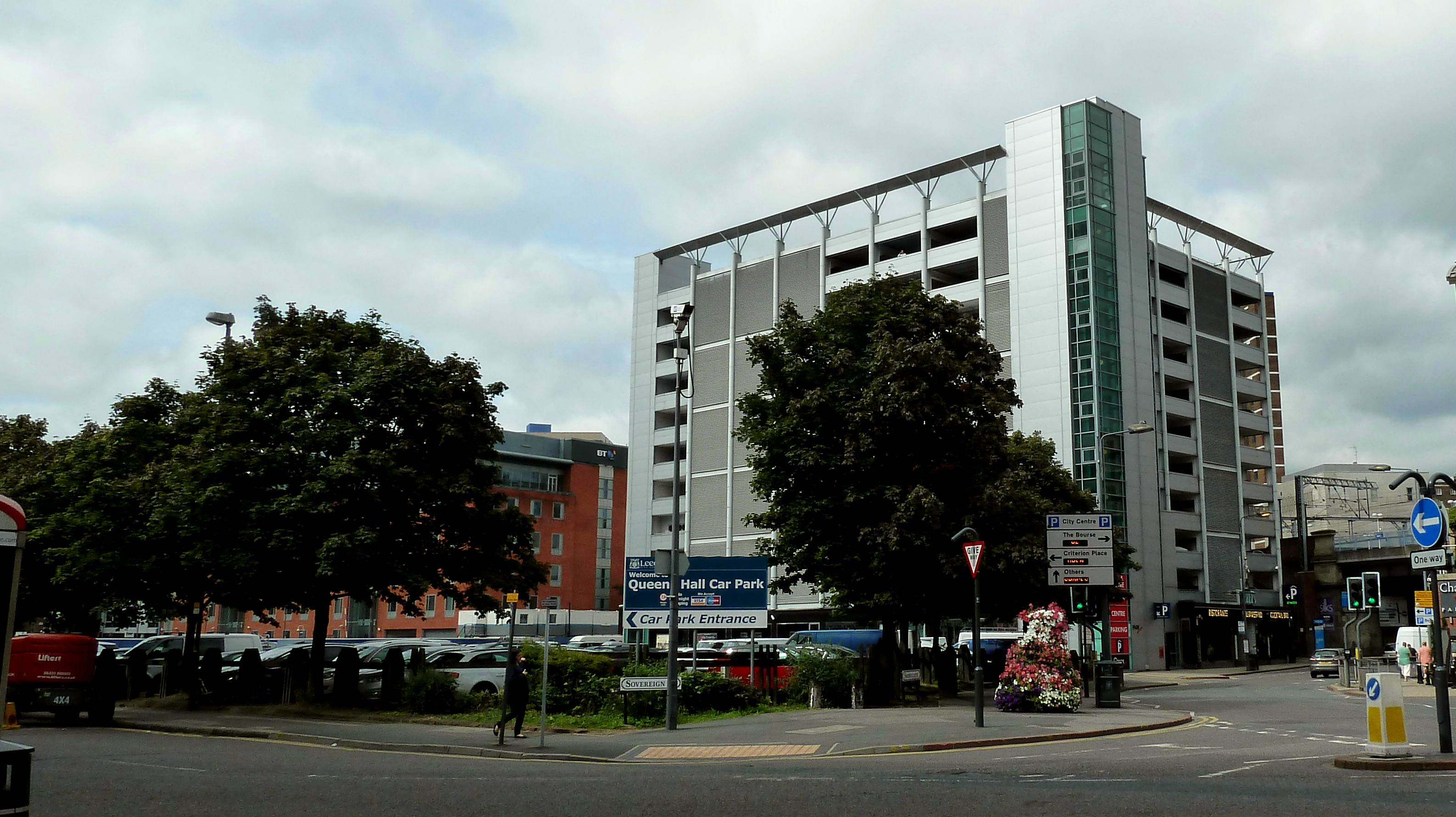 Criterion Place was a proposed skyscraper development in Leeds, West Yorkshire, England. It was not built, and the intended site (of the previously demolished Queens Hall) remains empty and is used as a car park.